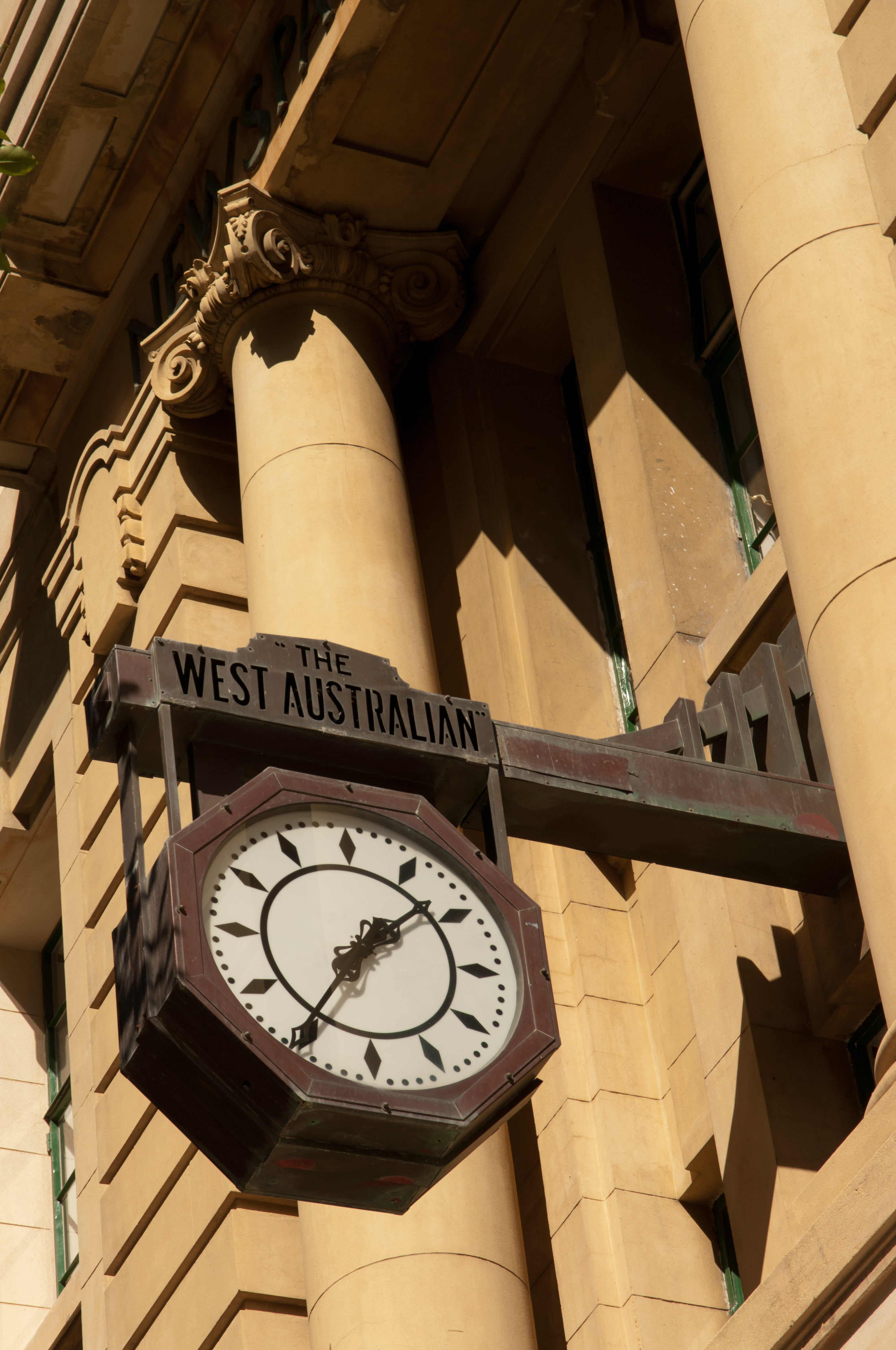 Newspaper House, Perth, Western Australia